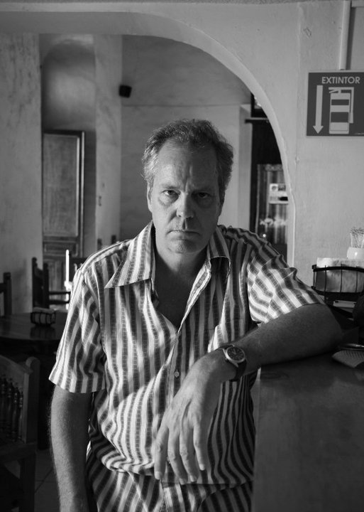 Dan Stuart, Oaxaca Mexico 2011